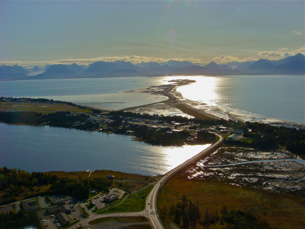 Showing a corner of Homer, Alaska Highway 1, Beluga Lake, Homer Spit, part of Kachemak Bay, and the Kenai Mountains across the bay. Homer spit is outlined by sunglint.